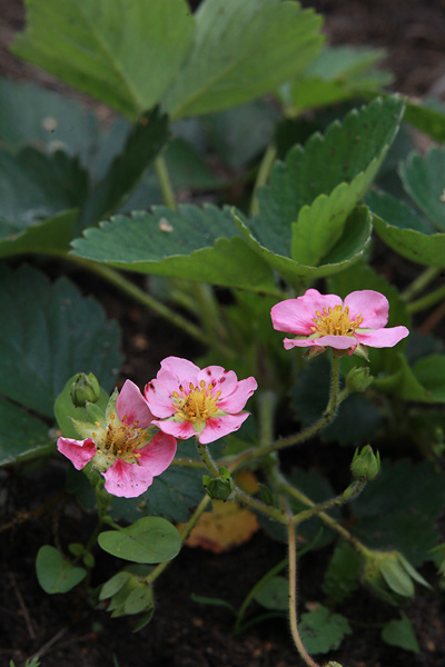 Garden strawberry 'Uralochka Pink'